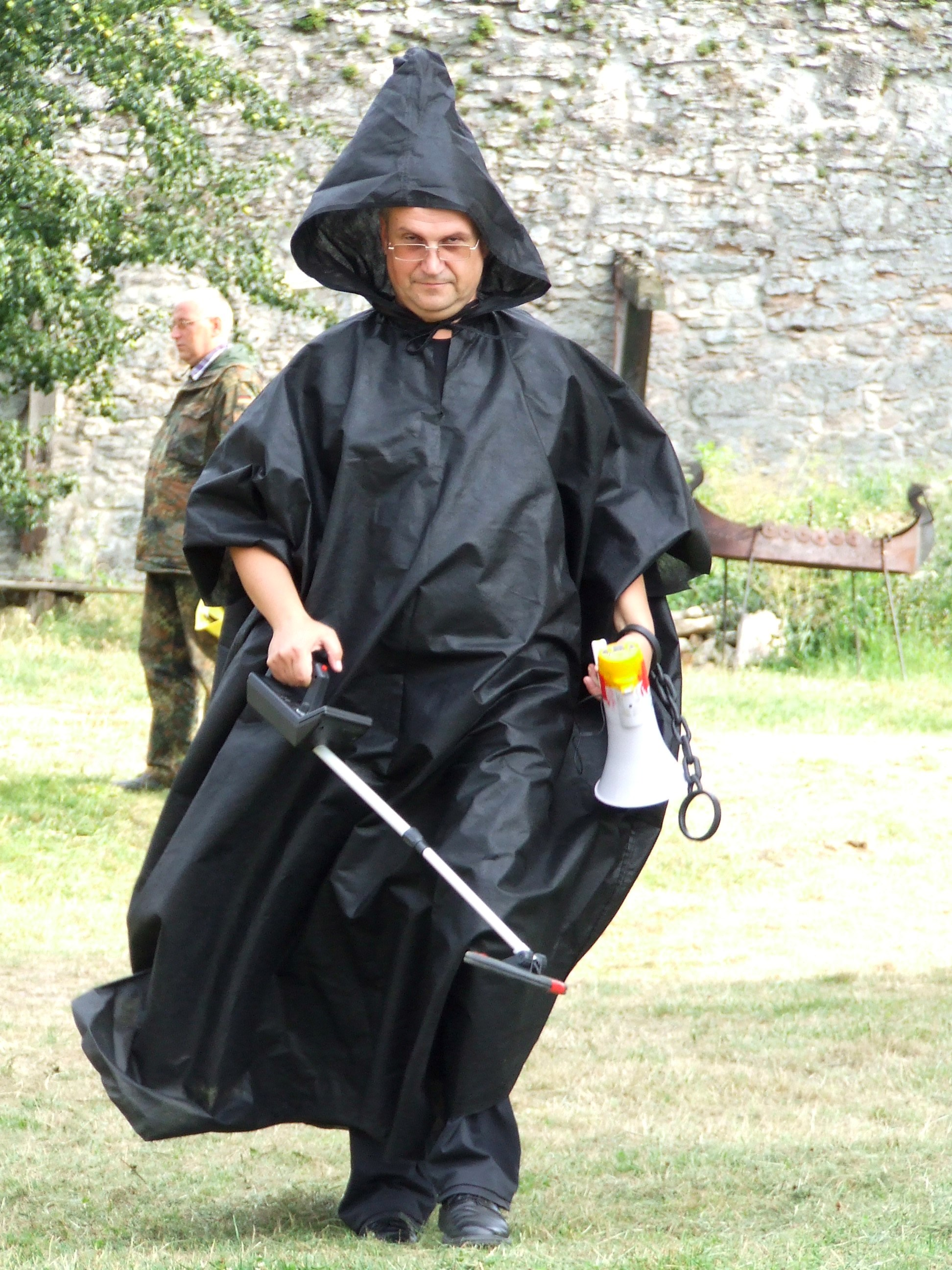 Ihor Zapadenko, historian, performs the role of “Black Archeologist” in Arheologist’s Day celebration in Medzhybizh Fortress in August of year of 2016. He is the deputy for director of State historical and cultural preserve “Medzhybizh” (Medzhybizh Fortress (Castle) was built in 1540s and became one of the strongest fortresses of the Crown of the Kingdom of Poland in Podolia, it’s located in the town of Medzhybizh in Khmelnytskiy Region in Ukraine. This pearl of fortification architecture has the status of immovable monument of Ukraine of national importance)